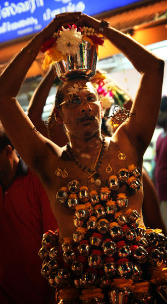 This is image of an Indian man at Penang Thaipusam.